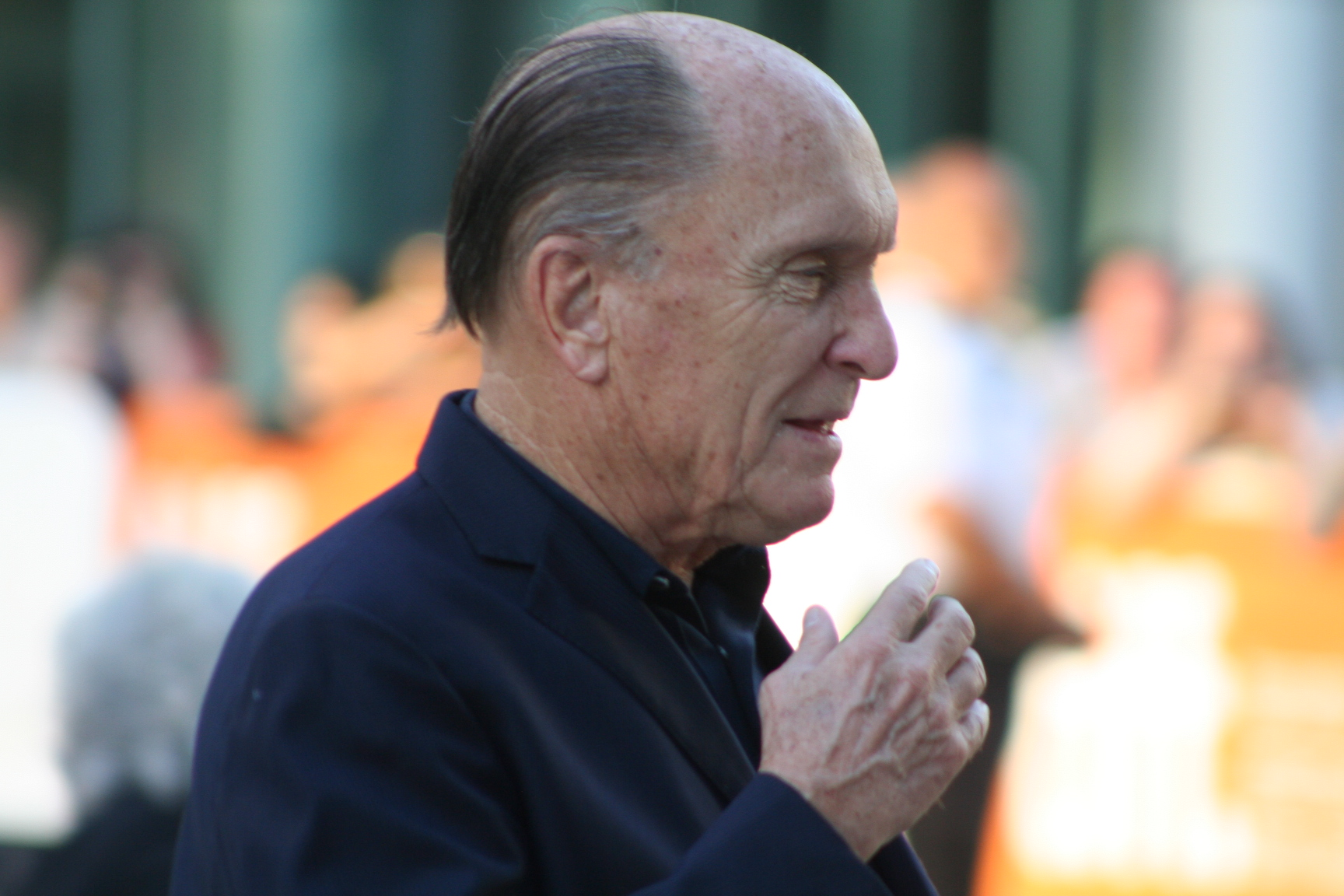 Stars turn out for the movie Get Low at TIFF 2009